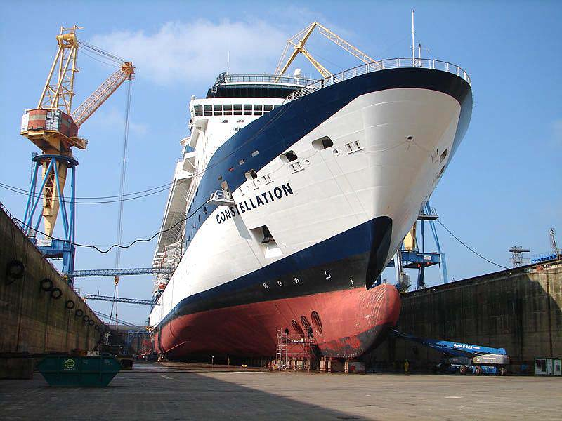 The passenger ship Constellation in Dry dock in Brest.